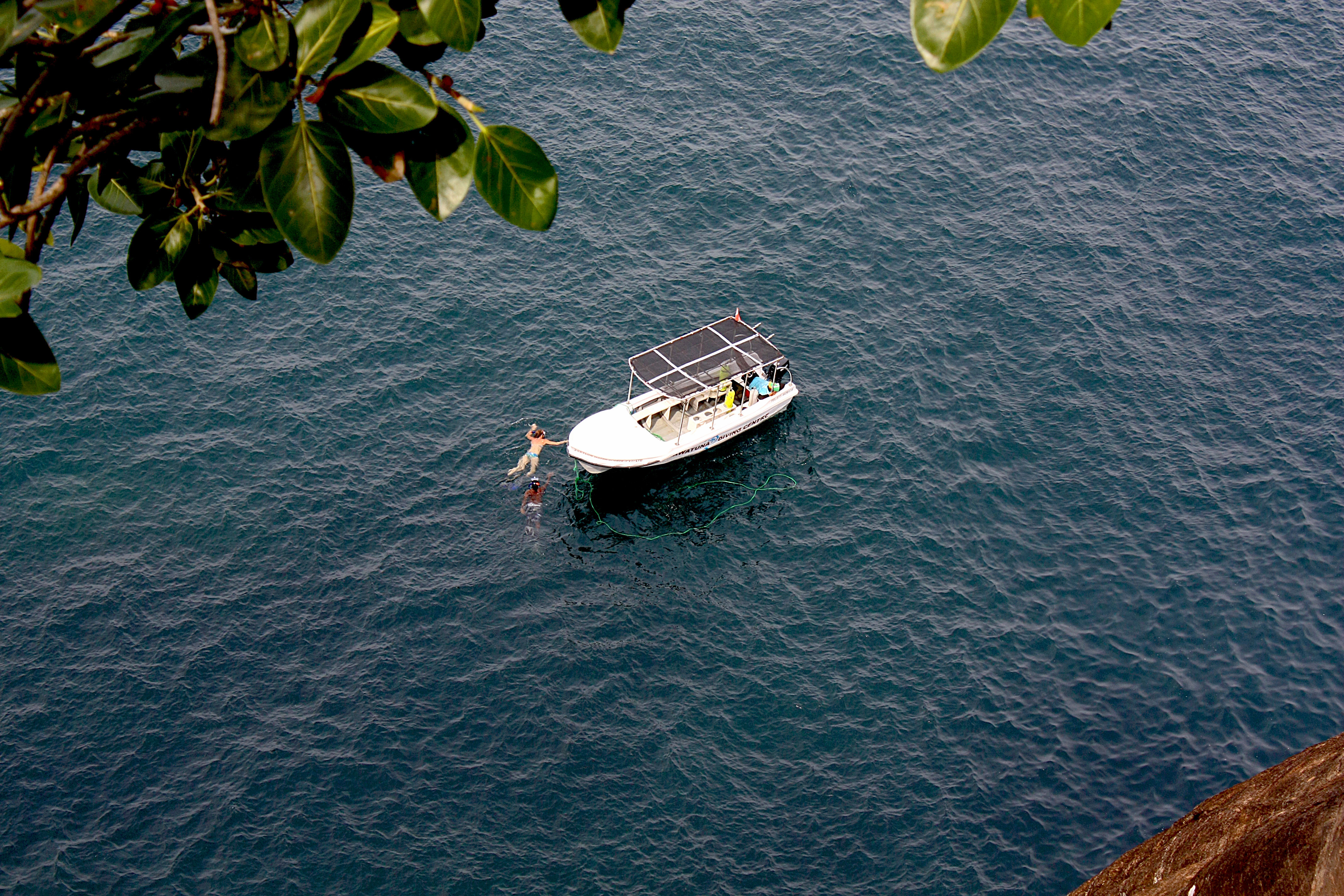 Couple in Lover’s Leap – Trincomalee, Sri Lanka. This spot is known as lover’s leap where lovers commit suicide by jumping from Swami Rock. Before they jump they would pray at the temple for a chance to find each other again in their next lives. In the image a forging couple approaching boat after they swim in the place - lover’s leap. This photo has been taken in the country: Sri Lanka